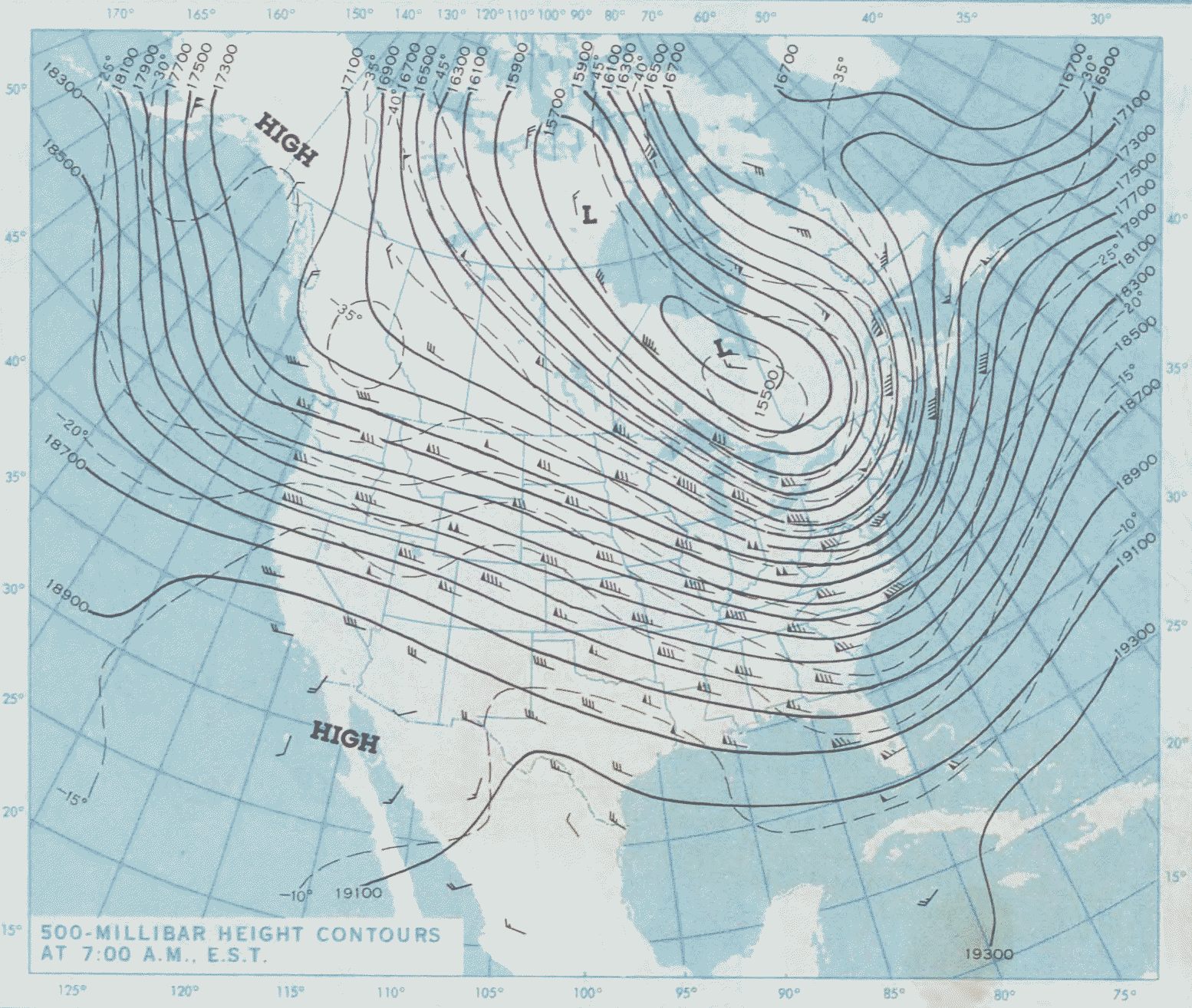 500-mbar height contours on on 17 January 1982, Cold Sunday.